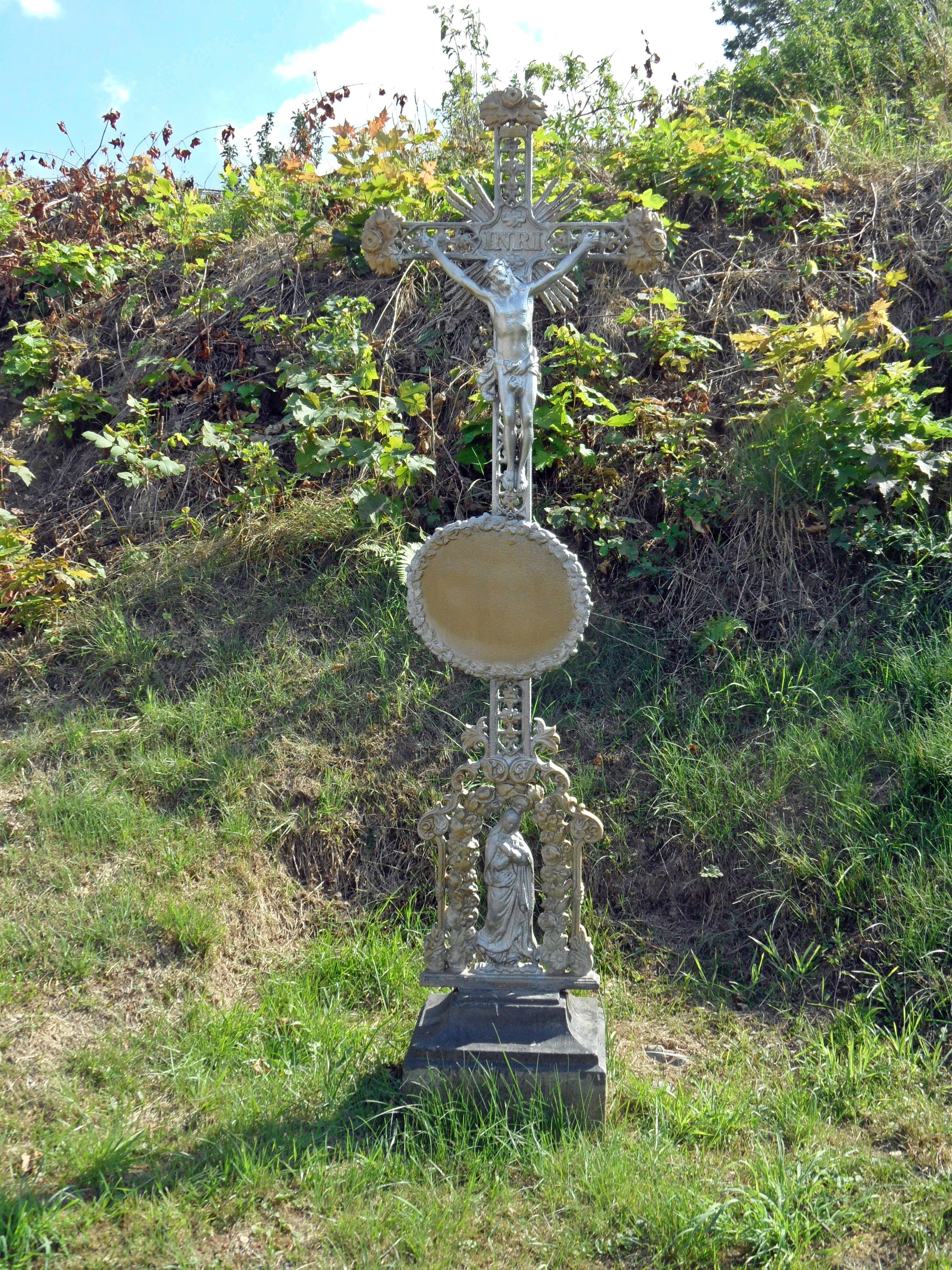 Studený Zejf H. Crucifix. Jeseník District, the Czech Republic.